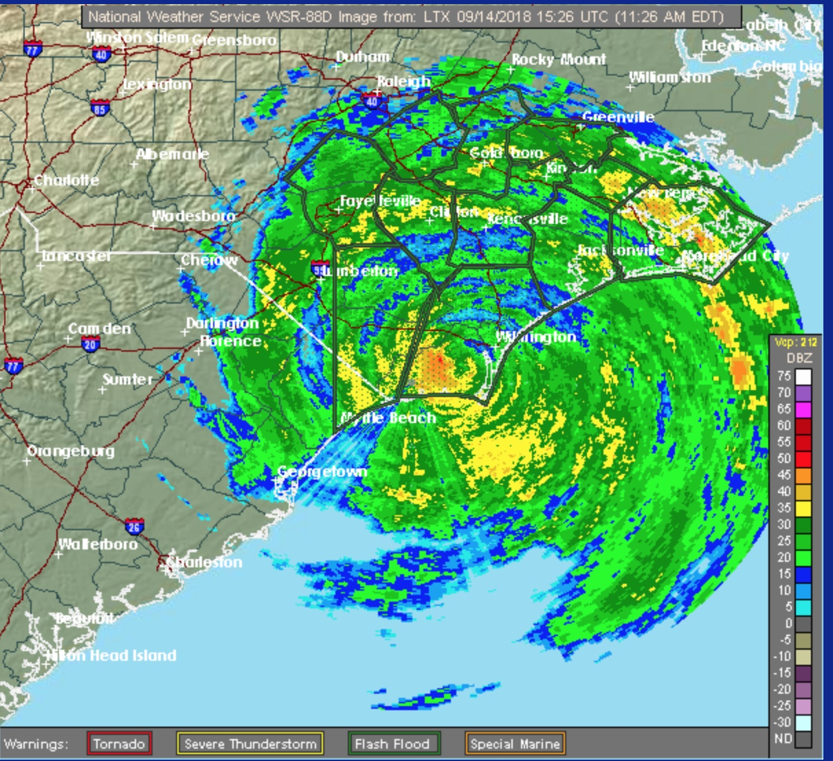 Radar images of Hurricane Florence a few hours after landfall on September 14, 2018